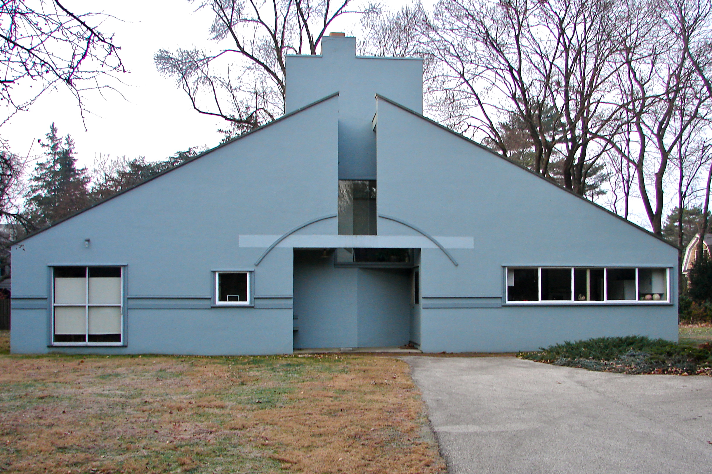 Front facade of the Vanna Venturi house, one of the first major works of post modern architecture, known especially for the facade and its split gable.